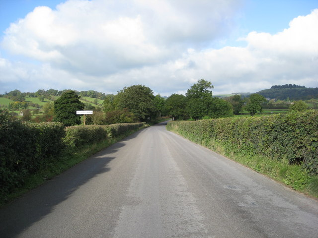 Approaching the turn off to Ballidon The sign reads Ballidon Quarry.